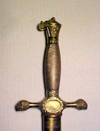 1959 N.S. Meyer's cadet sword. This model sword was imported by N.S. Meyer's From W. Germany. N.S. Meyer's was a major distributors to the Government and private military academy's N.S. Meyer's at one time had a contract to produce West Point Cadet Swords, that exact model is not shown.